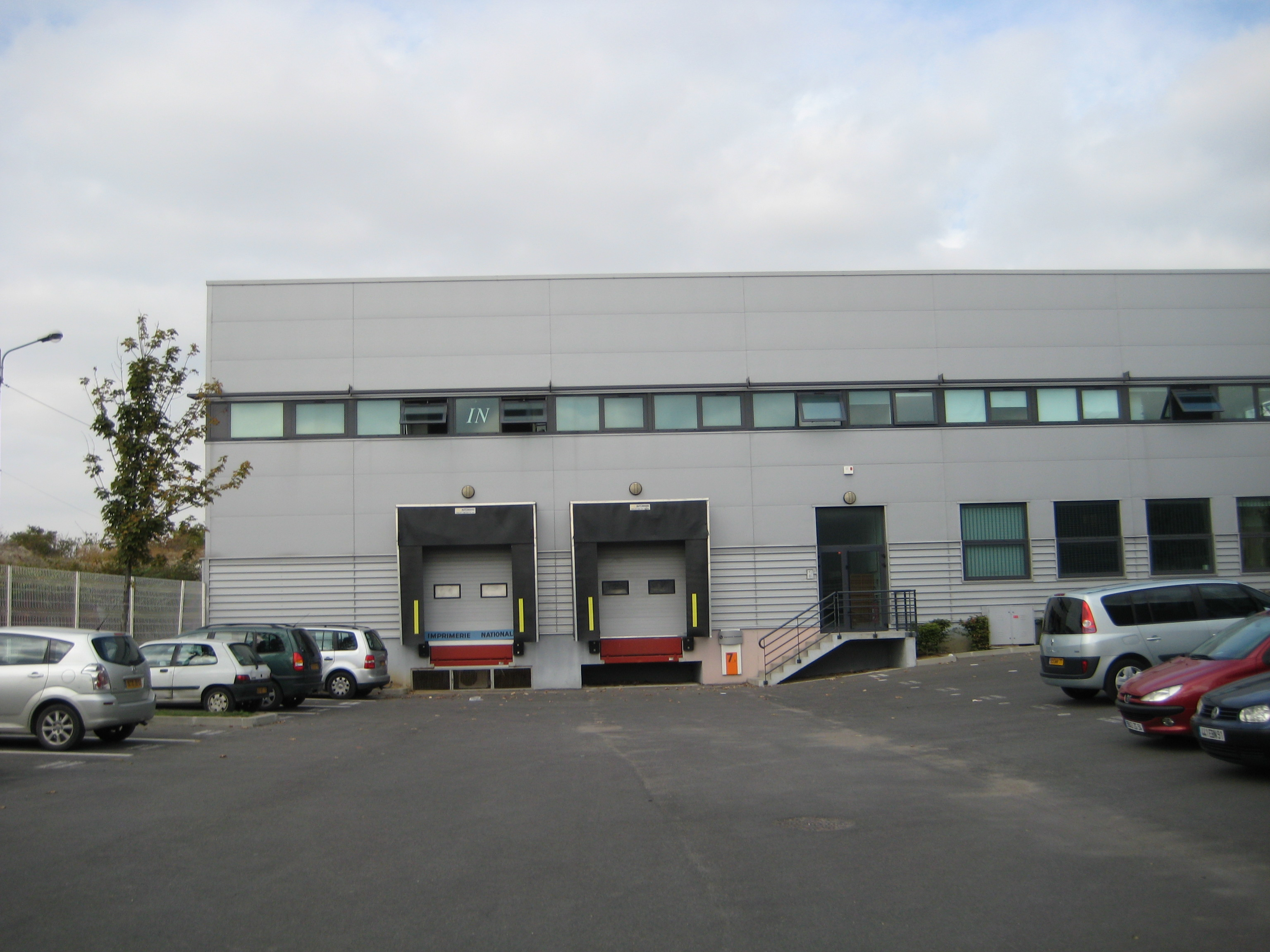 The new site of the remains of the Imprimerie nationale in Ivry sur Seine.